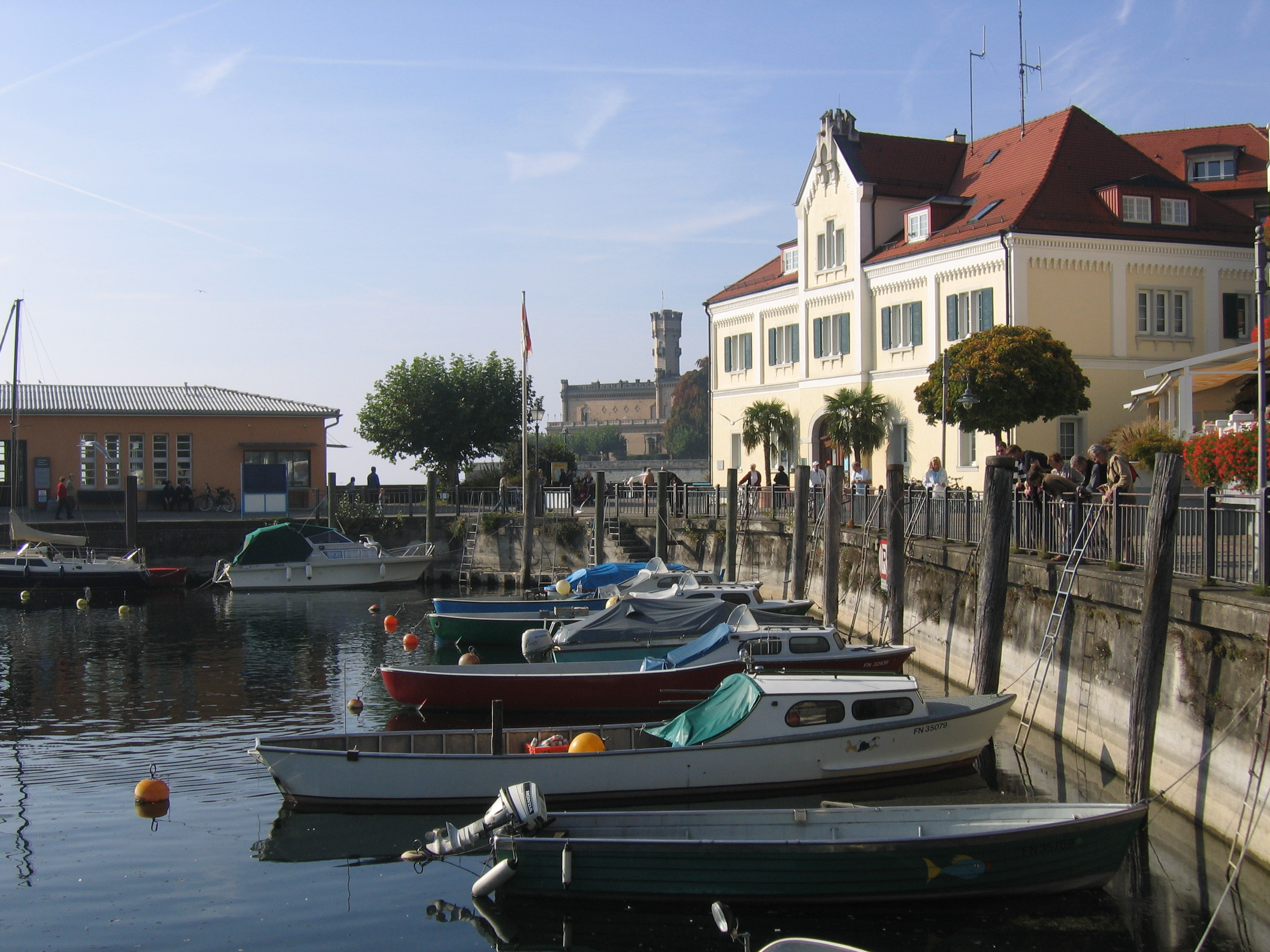 Germany - Baden-Württemberg - Bodenseekreis - Langenargen: harbour